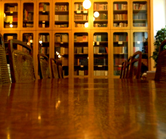 Library